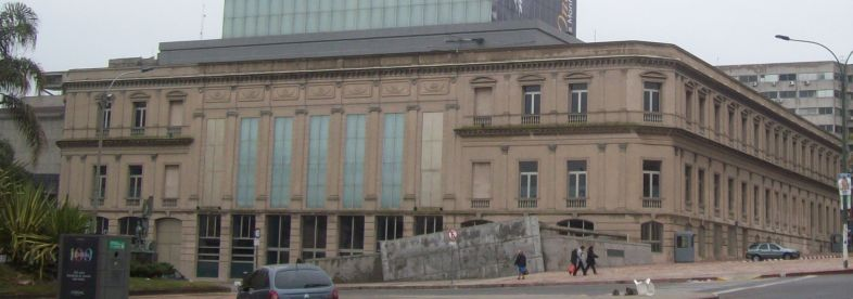 Teatro Solís, Montevideo, Uruguay